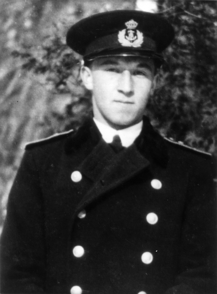 Naval lieutenent Sergej Masera (11.5. 1912 - 17.4. 1941)